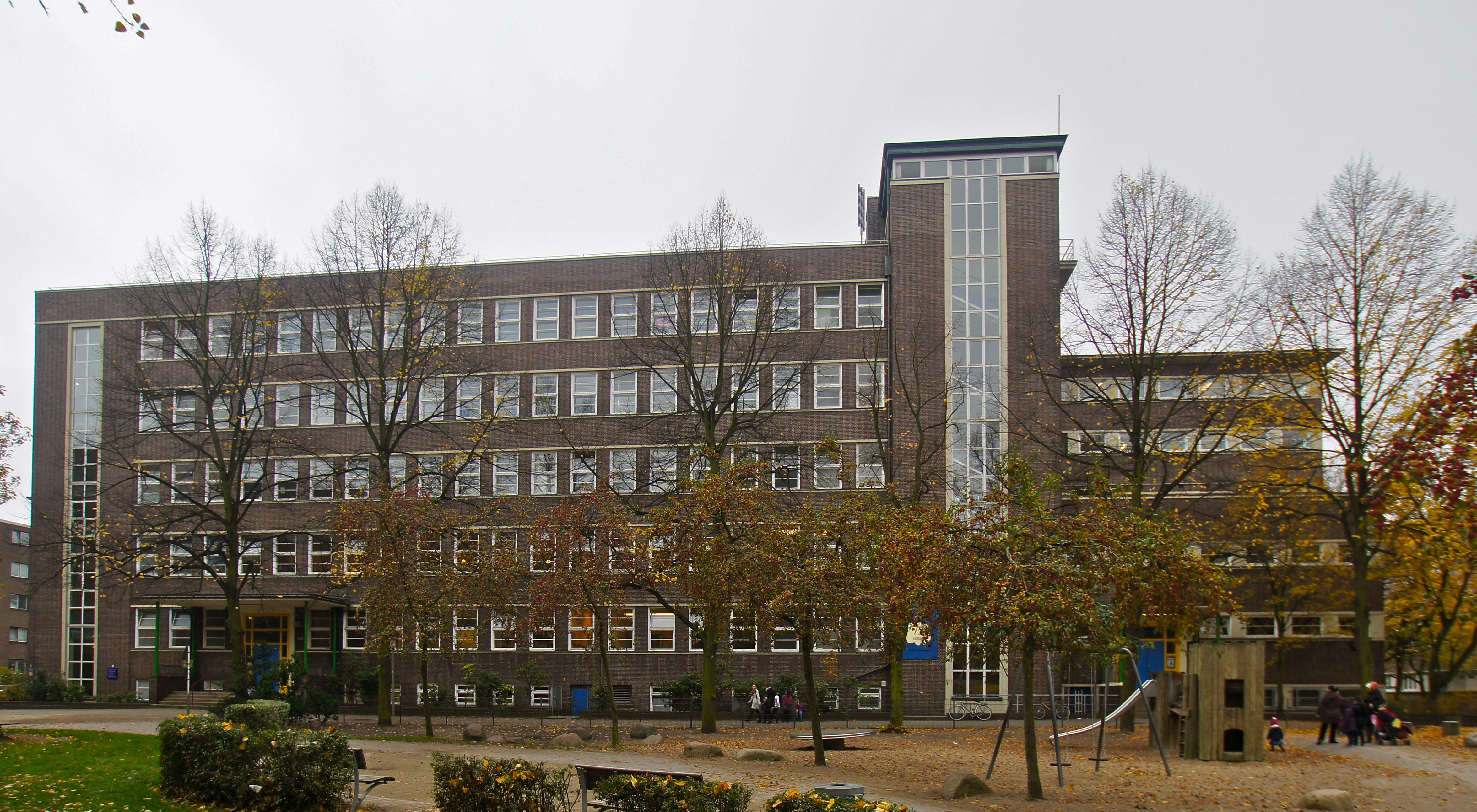 Hamburg (Veddel), Germany: The school (1929-31), designed by Fritz Schumacher